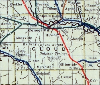 Stouffer's Railroad Map of Kansas, 1915-1918, Cloud County.